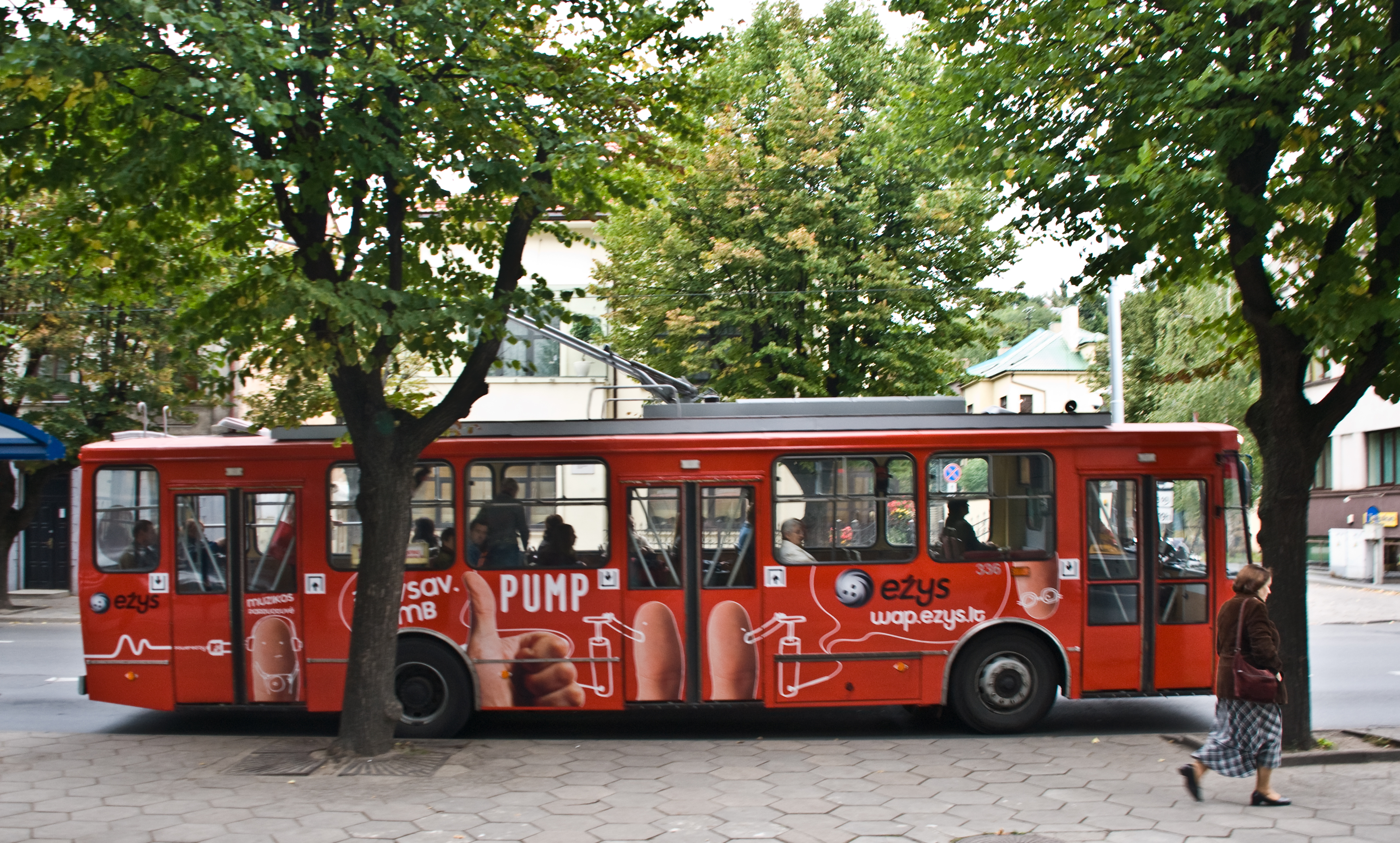 Trolley bus in Kaunas, Lithuania